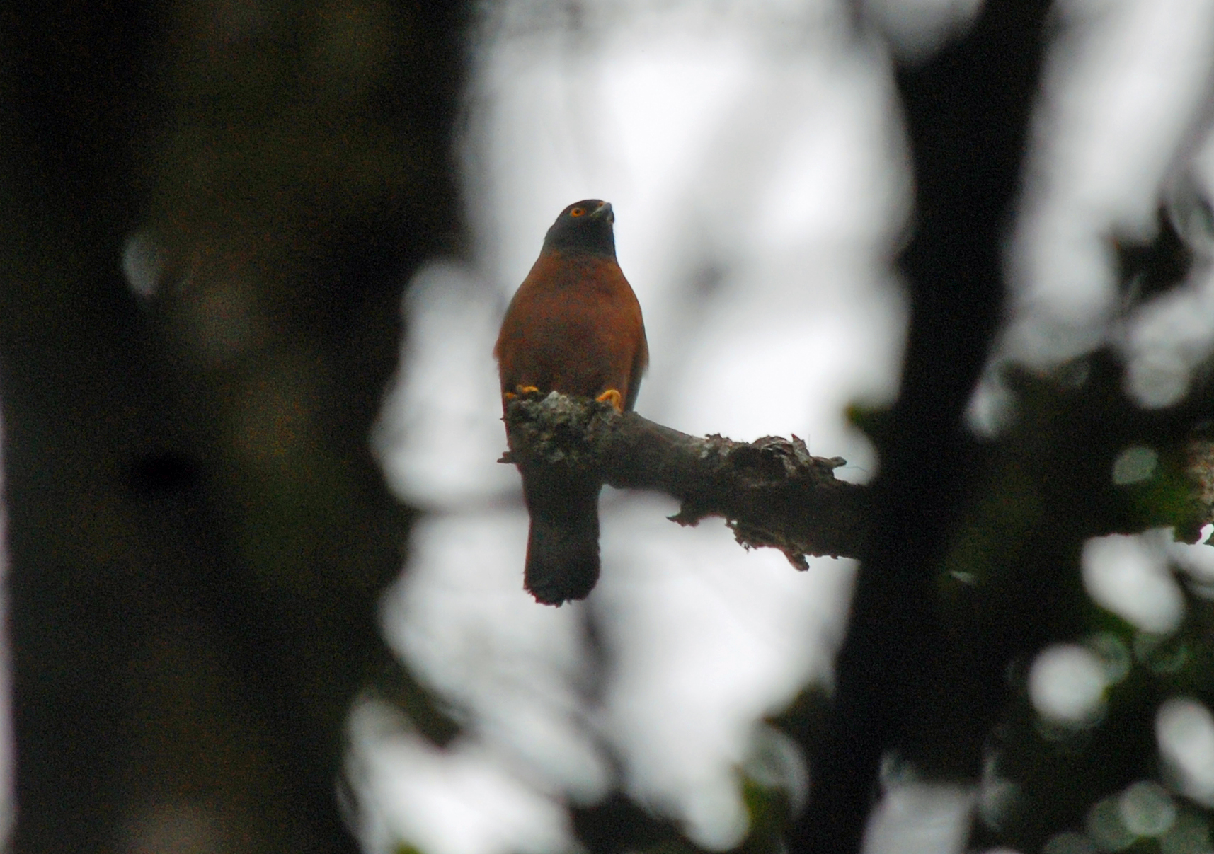 Black-mantled Goshawk, Ambua Lodge, PNG The black-mantled goshawk is a species of bird of prey in the Accipitridae family.